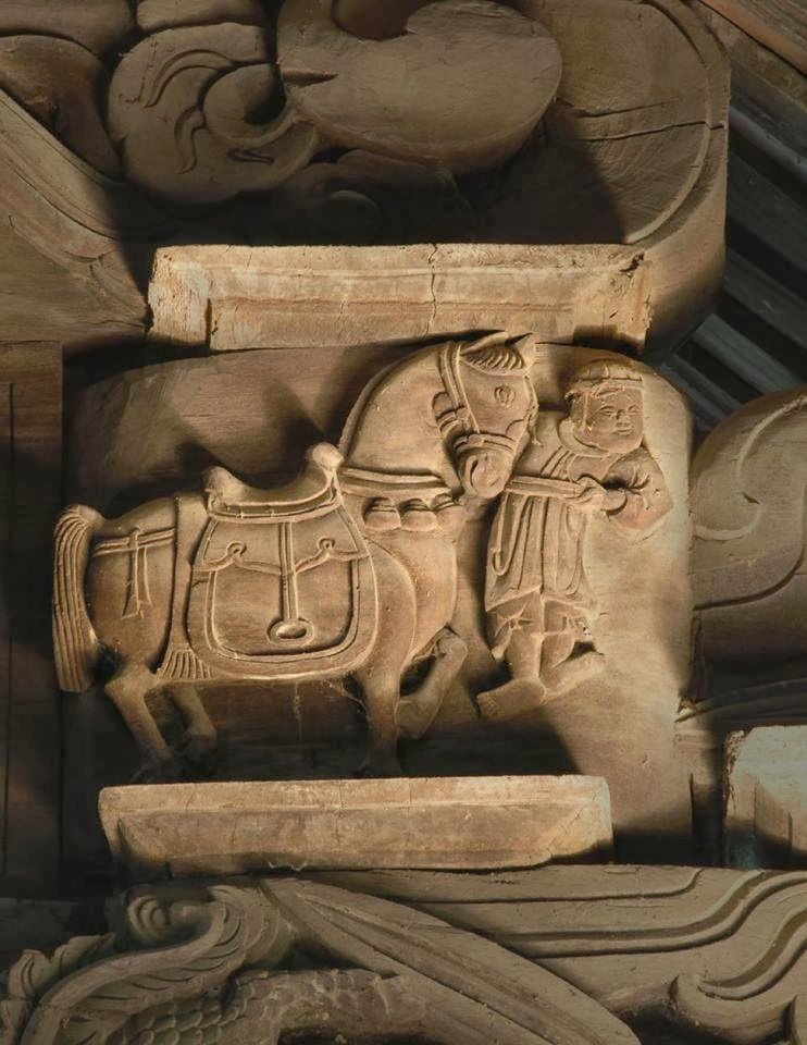 Nghệ An